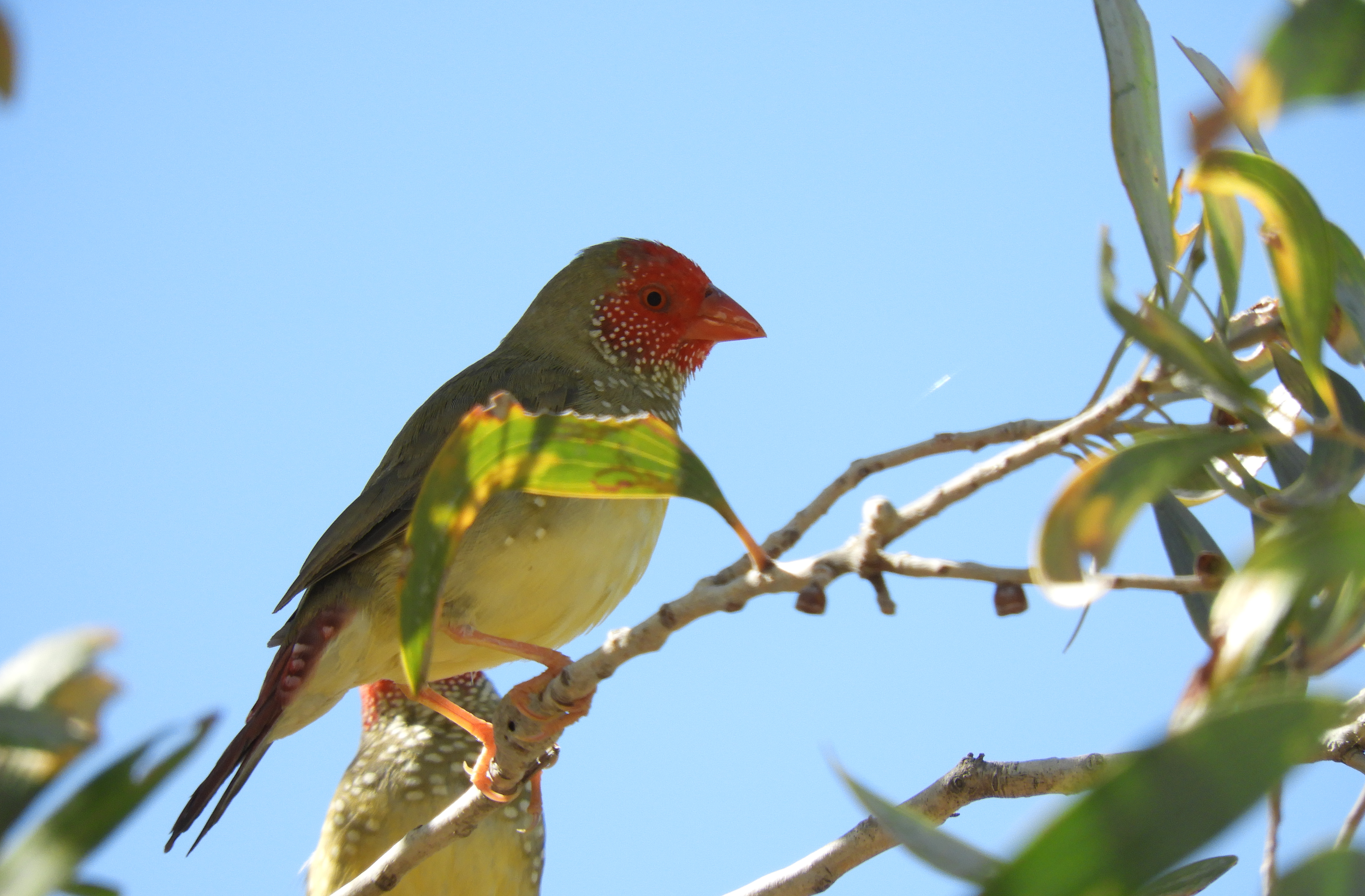 Star Finch race Neochmia ruficauda subclarescens taken on the King River south of Wyndham WA